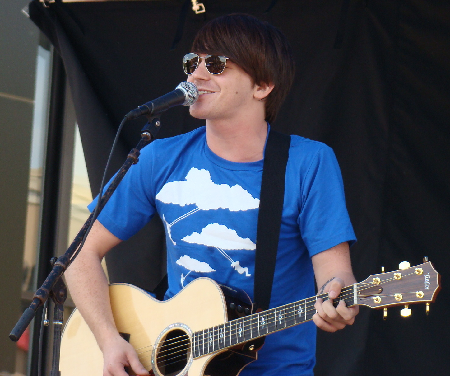 Drake Bell actor and singing.